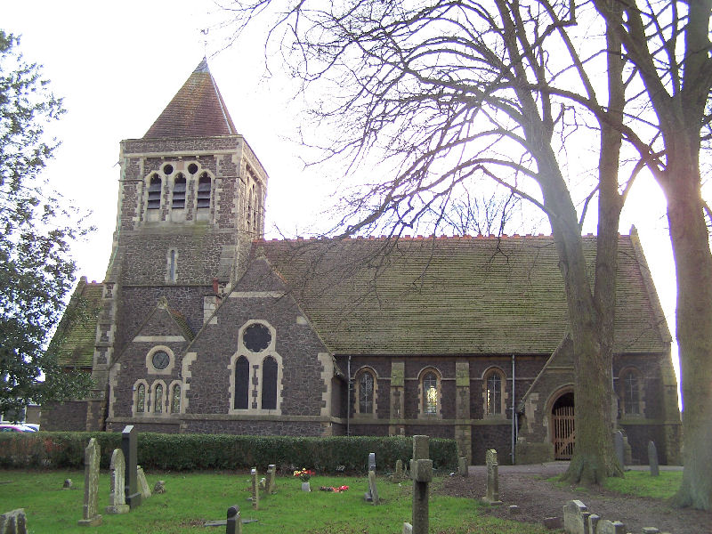 Glenfield parish church taken by kev747